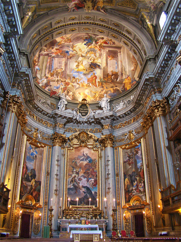 Church of Saint Ignatius of Loyola, Rome, Lazio, Italy. The three frescoes around the high altar are the 17th Century works of the Jesuit Andrea Pozzo. They show Saint Ignatius Loyola during his vision at La Storta, sending Saint Francis Xavier to the Indies, and greeting Saint Francesco Borgia.